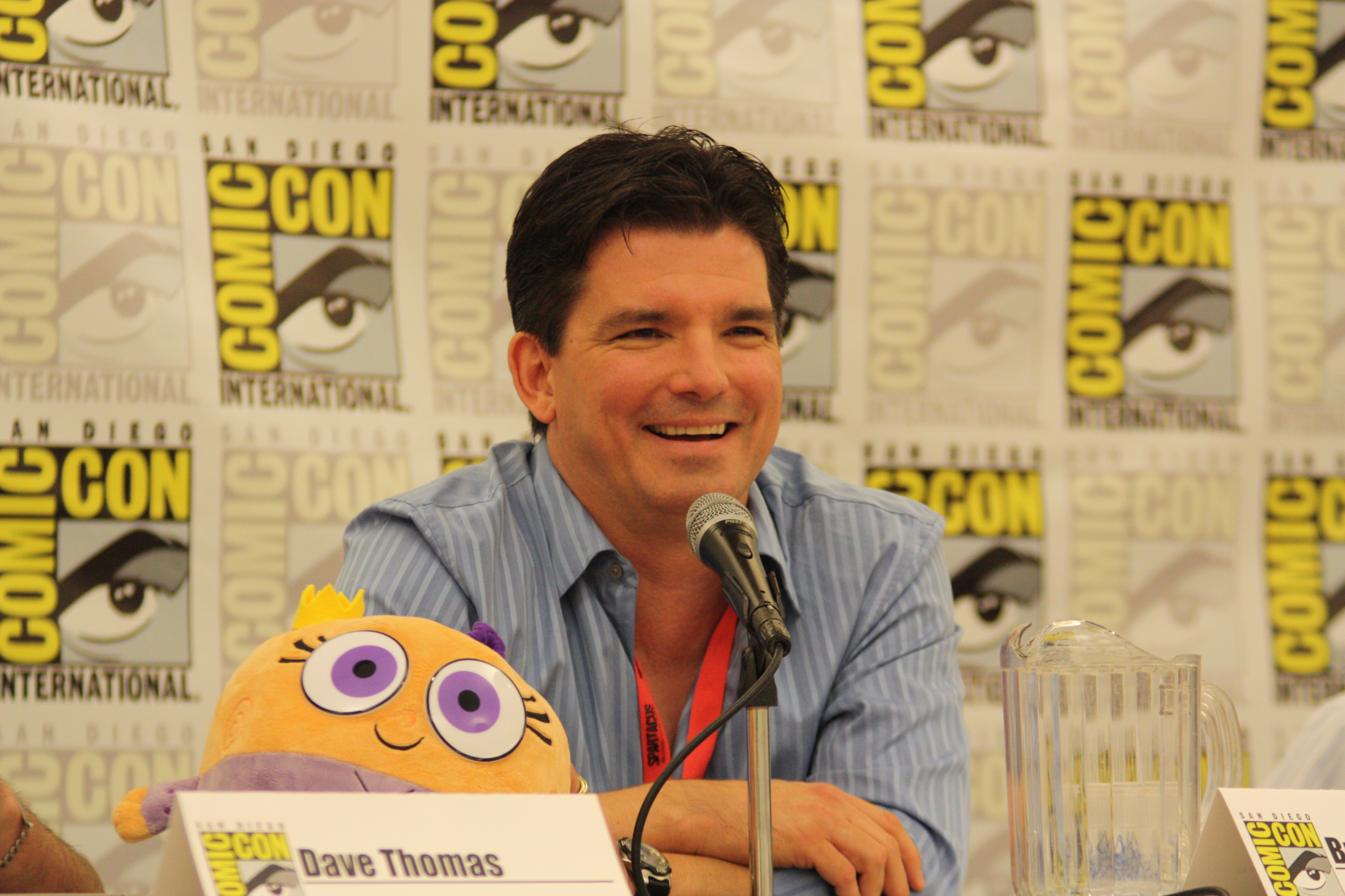 Butch Hartman at the Fairly Odd Parent panel, with a Poof doll in front of him.